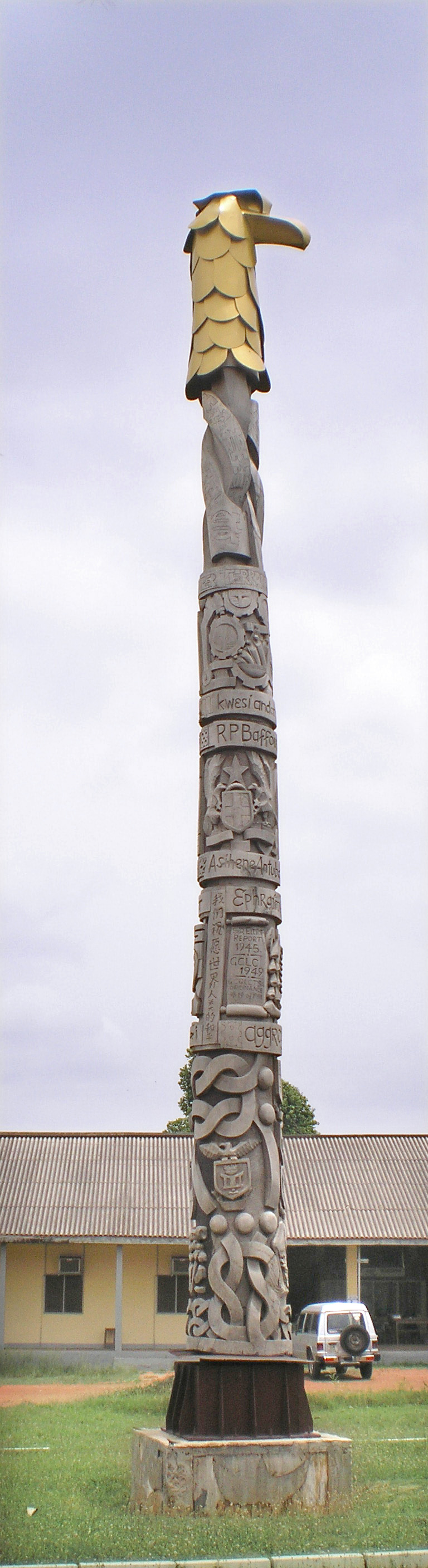 The Peace Pole was erected on the campus of the Kwame Nkrumah University of Science and Technology (KNUST) in Kumasi, Ghana on 21st September 2007 on the International Day of Peace. It creates and preserves a monumental legacy for peace on the University campus, in Ghana and Africa as a whole. The pole is made of a 105 years old Sapele tree which used to stand in the University's botanical garden. The pole is 16.7 m (55 feet) tall, currently the tallest in the world. Various indigenous symbols have been carved on the pole. 5 languages (Twi—a local language in Ghana, Hindi, Chinese, Swahili, and Arabic) have been used to express the peace prayer on the pole: "MAY PEACE BE ON EARTH". This is carved in bas relief. The creative carvings on the peace Pole also illustrates the history of Kwame Nkrumah University of Science and Technology as well as some landmark events in Ghana and some key individuals whose lives have exemplified and or promoted peace including Dr Kofi Annan the former United Nations Secretary General who is an alumnus of the University. The carving also tells the story of technology from prehistoric paleolithic times and how the earlier settlers who lived along the wewe river located in the proposed UNESCO KNUST world Heritage Botanical garden. The idea of of the tallest Peace Pole was founded by Mr Simeone Azoska.The project became a success out of the efforts of several institutions including the United Nations System in Ghana, the UNDP, Kessben Group of Companies,Antrak Group of Companies, the KNUST Alumni,UNESCO,Head of State Award Scheme in Ghana. Key personalities who were pushed the project are Prof. Dr. Ing Henry Nii Adziri Wellington, The late Prof Kwesi Andam, Mr Yebo Okrah, Prof. W.O Ellis, Dr. Adom,Mr Francis Azuimah, Mr Zen Opoku a world class class Sculptor who did the carving